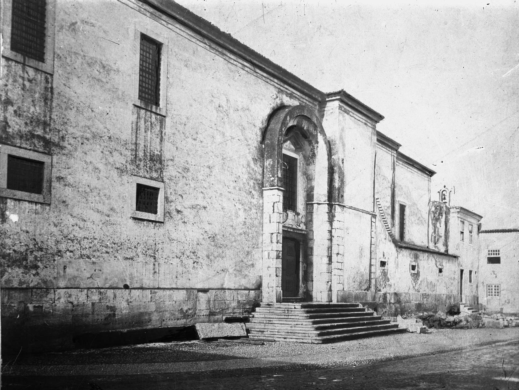 The Convento de Santana (Convent of Saint Anne), in Pena, Lisbon. Demolished in 1897.